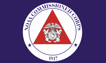 Flag of the National Oceanic and Atmospheric Administration Commissioned Officer Corps (NOAA).